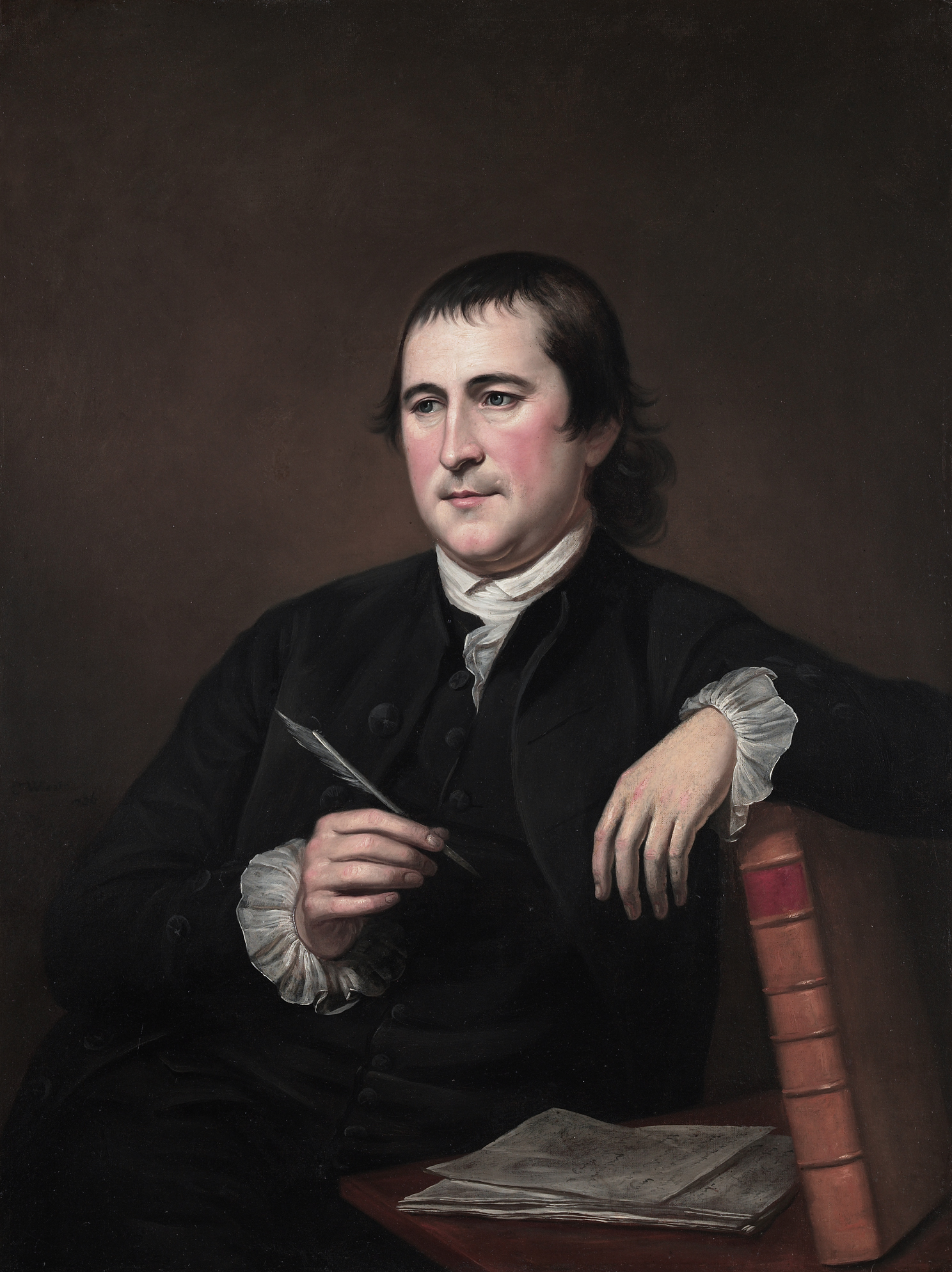 Jonathan Dickinson Sergeant (1746–1793), Class of 1762, A.M. 1765 oil on canvas 90.2 x 67.7 cm 1786